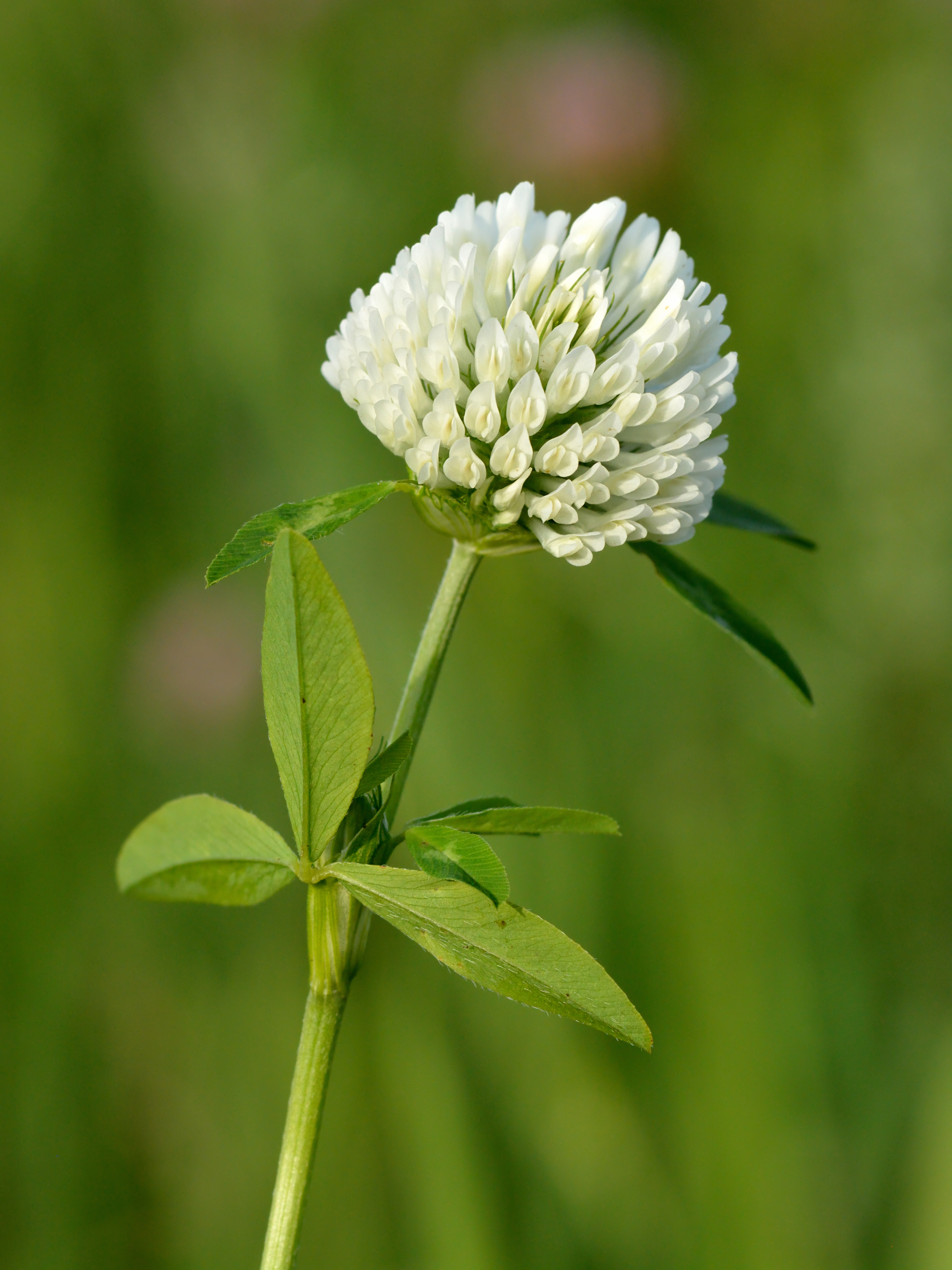 White-flowered red clover (Trifolium pratense). Keila, Northwestern Estonia.